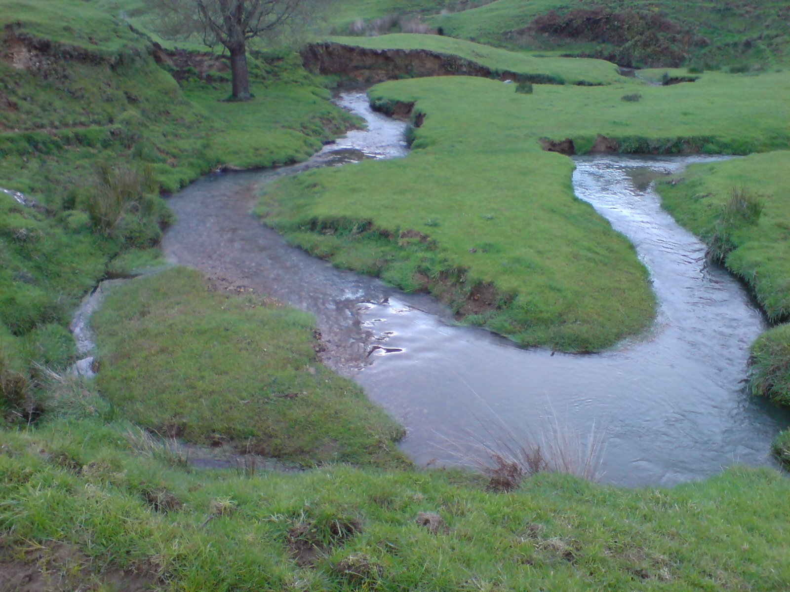 A stream on a working farm in the Waitomo District area of New Zealand. While quite beautiful and placid-looking, the area also shows the negative effects of forestry- and agriculture-induced erosion. The banks are heavily undercut and prone to slipping, as the original trees and bush have long since been logged, the land cleared and turned into grazing pastures for sheep and other animals.